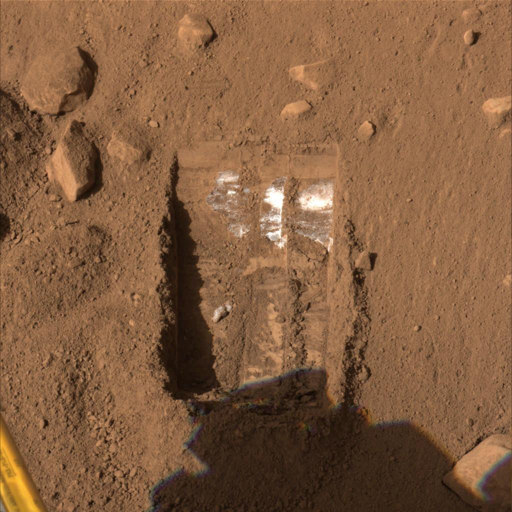 This color image was acquired by NASA's Phoenix Mars Lander's Surface Stereo Imager on the 19th day of the mission, or Sol 19 (June 13, 2008), after the May 25, 2008, landing. This image shows one trench informally called "Dodo-Goldilocks" after two digs (dug on Sol 18, or June 12, 2008) by Phoenix's Robotic Arm. The trench is 22 centimeters (8.7 inches) wide and 35 centimeters (13.8 inches) long. At its deepest point, the trench is 7 to 8 centimeters (2.7 to 3 inches) deep. White material, possibly ice, is located only at the upper portion of the trench, indicating that it is not continuous throughout the excavated site. According to scientists, the trench might be exposing a ledge, or only a portion of a slab, of the white material.